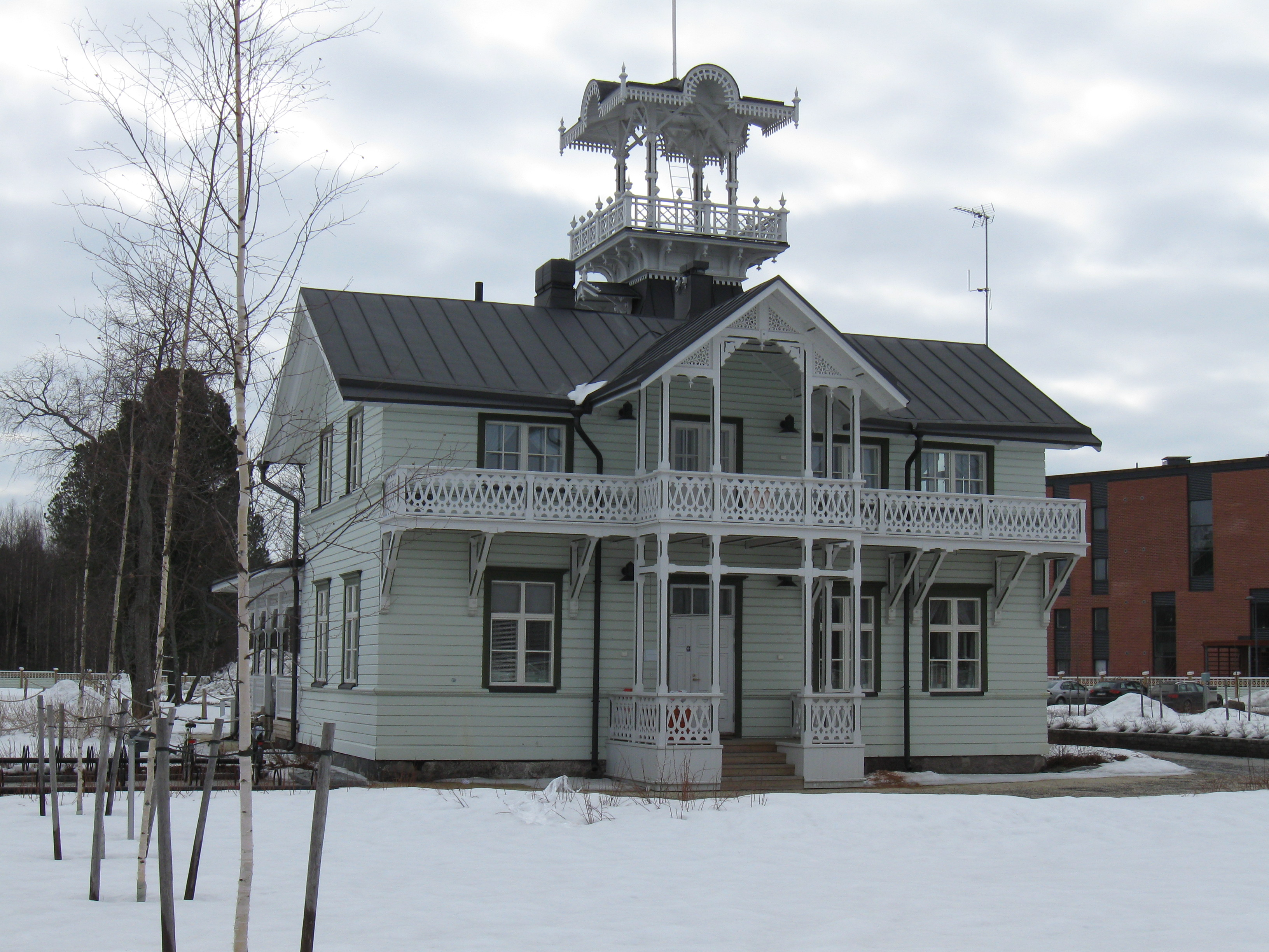 The wooden villa named "Villa Hannala" in Toppilansaari, Oulu, now a restaurant and cafeteria.